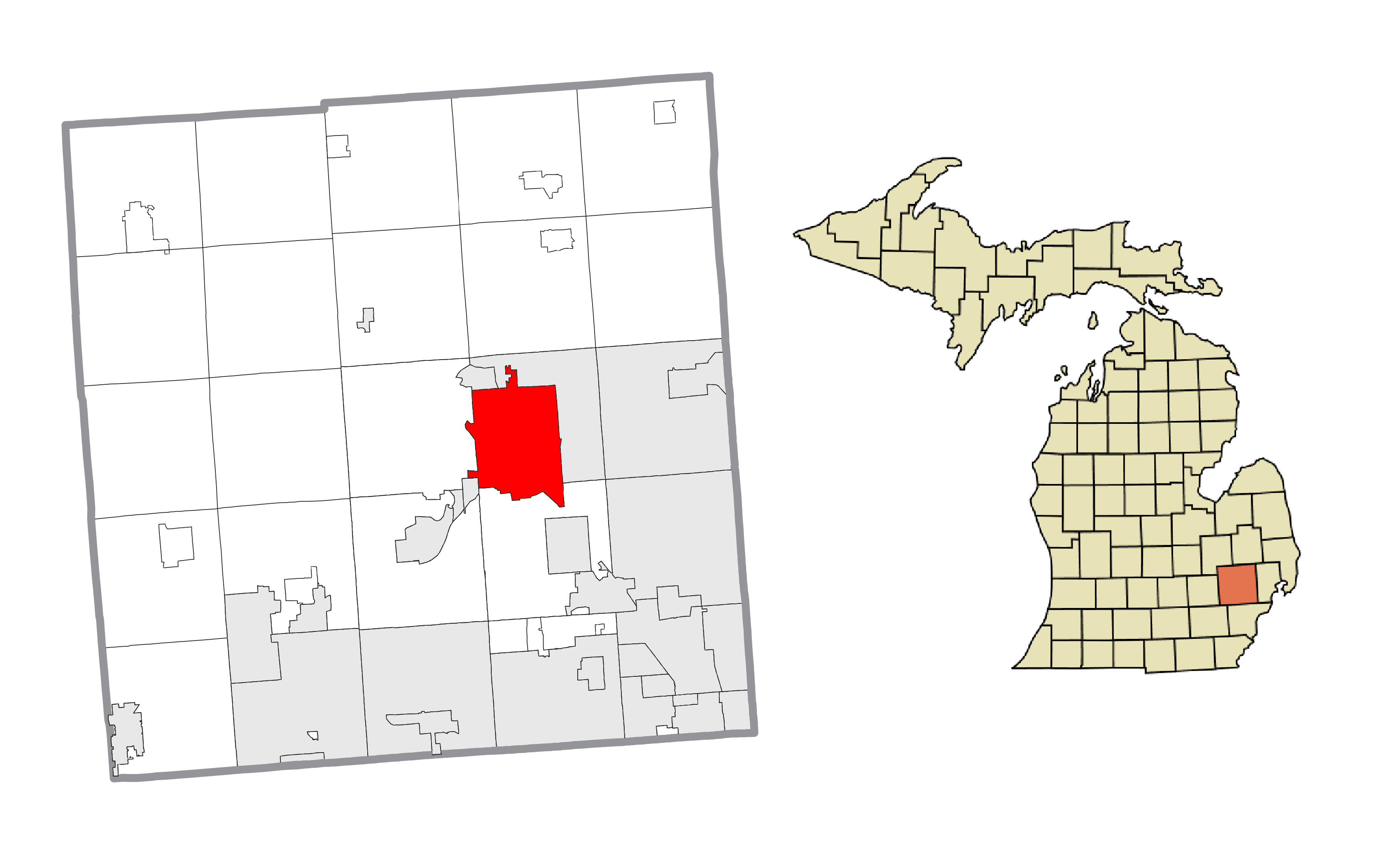 Pontiac, MI